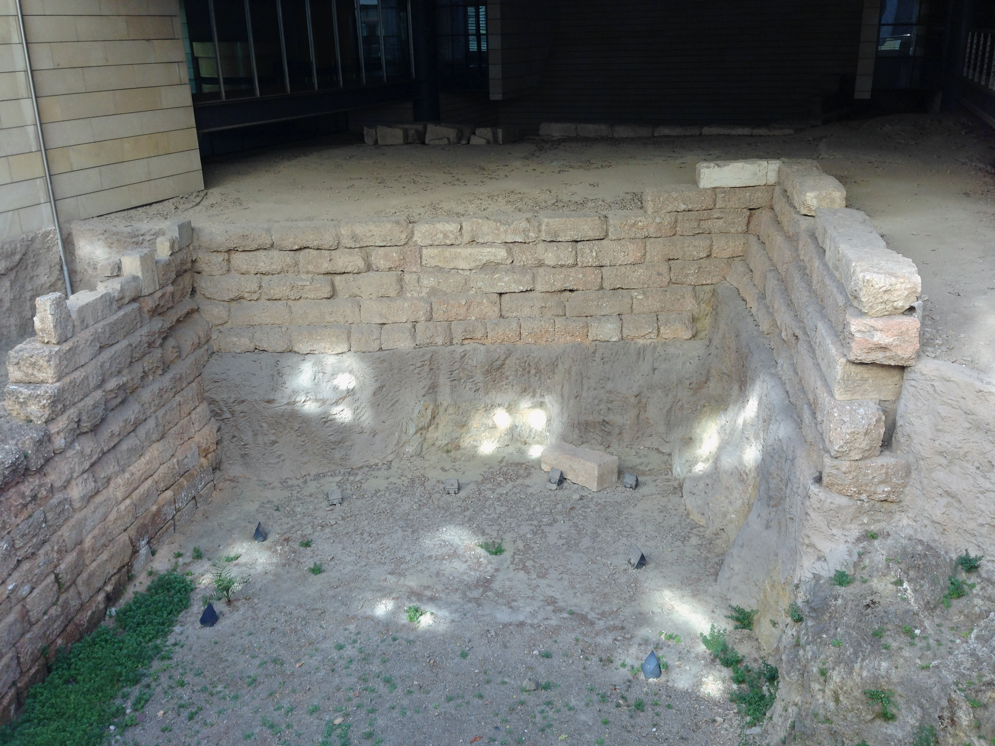 The remnants were discovered during the construction of the new headquarters of the national bank of Greece.